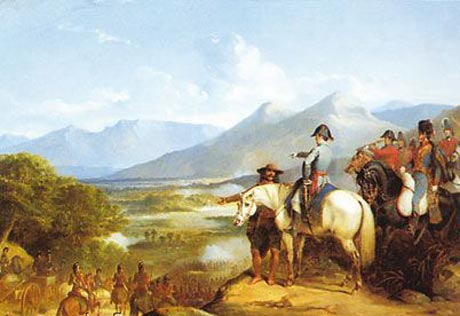 The Duke of Wellington at the battle of Vitoria